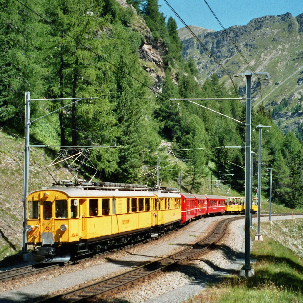 Swiss Historic RhB Train ABe 4/4 Double traction Nummer 30 and 34 near Station Alp Grüm (Dienststation Stablini)